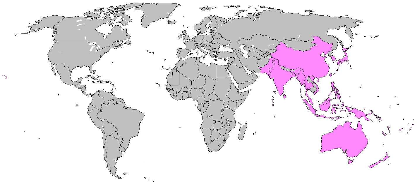 This world map illustrates the nations that have national member society representation in the International Amateur Radio Union. This map was created by Kenneth E. Harker WM5R of Austin, USA, in January, 2009. References International Amateur Radio Union (2008). "Member Societies". Retrieved January 21, 2009.